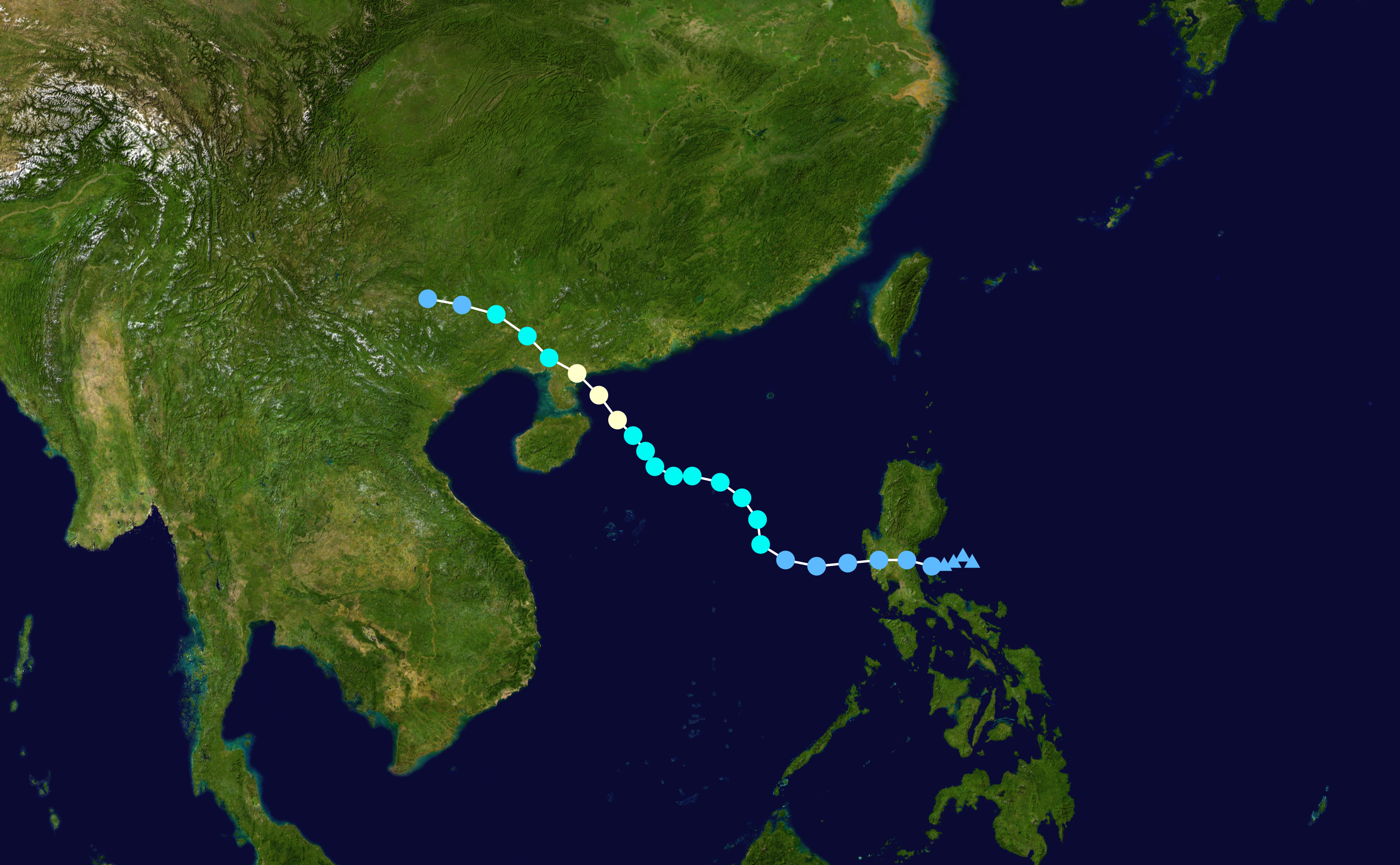 Track map of Typhoon Chanthu of the 2010 Pacific typhoon season. The points show the location of the storm at 6-hour intervals. The colour represents the storm's maximum sustained wind speeds as classified in the Saffir–Simpson scale (see below), and the shape of the data points represent the nature of the storm, according to the legend below. Saffir–Simpson scale Tropical depression≤38 mph≤62 km/h Category 3111–129 mph178–208 km/h Tropical storm39–73 mph63–118 km/h Category 4130–156 mph209–251 km/h Category 174–95 mph119–153 km/h Category 5≥157 mph≥252 km/h Category 296–110 mph154–177 km/h Unknown Storm type Tropical cyclone Subtropical cyclone Extratropical cyclone / Remnant low / Tropical disturbance / Monsoon depression